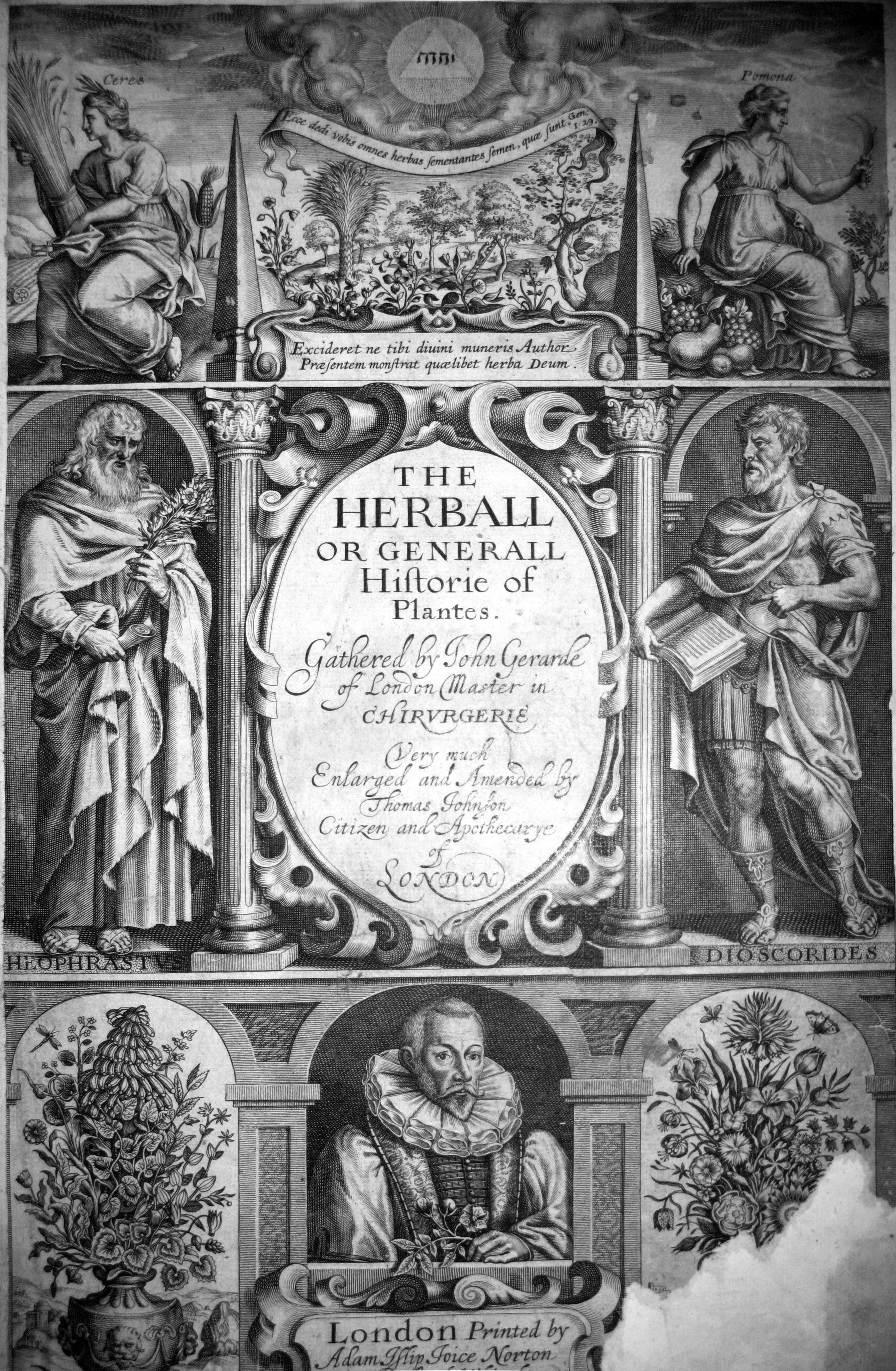 title page of Thomas Johnson's expended edition of Gerard's Herball, 1633 edition